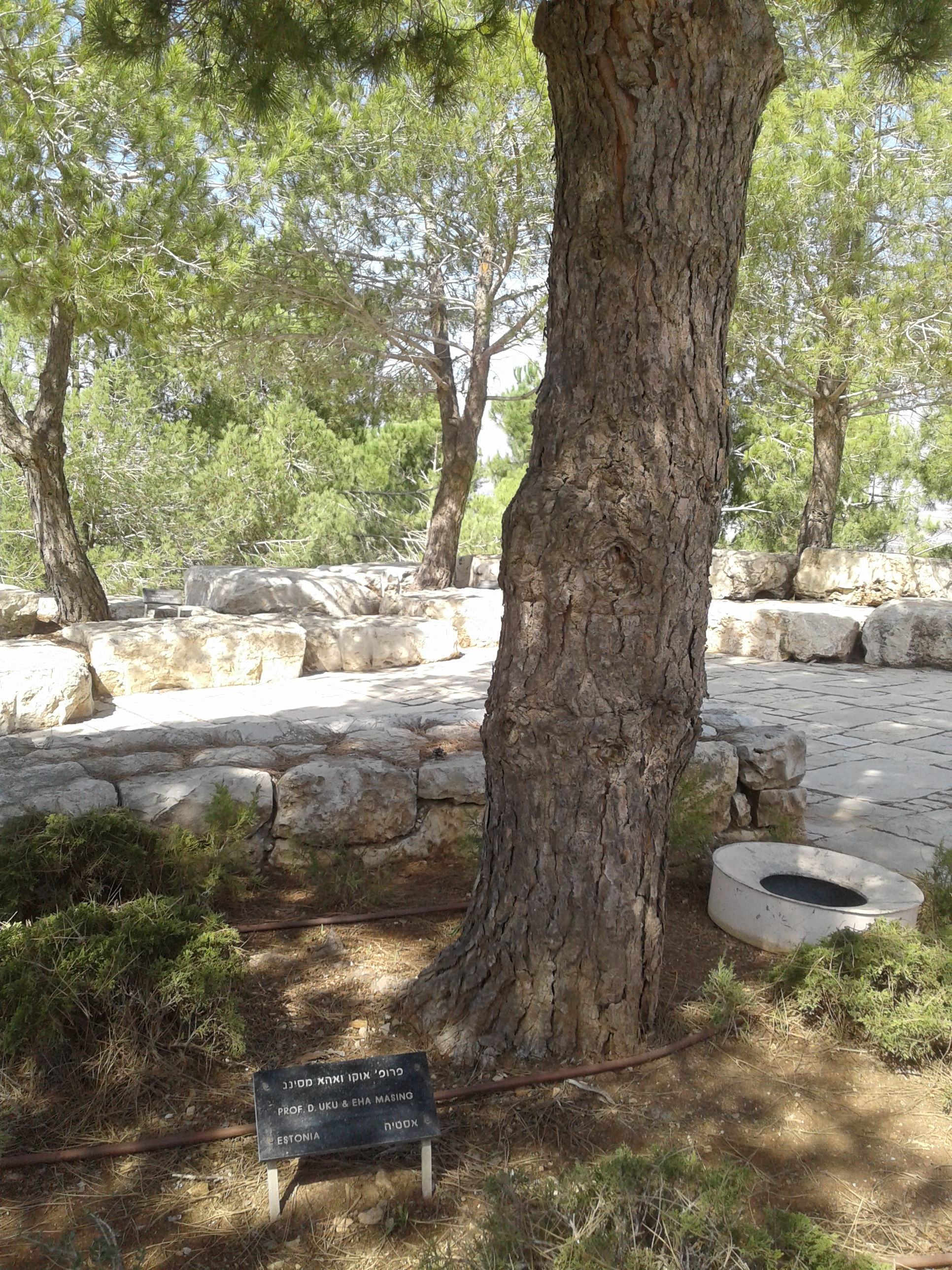 Tree planted at Yad Vashem in memory of Righteous Among the Nations Uku Masing